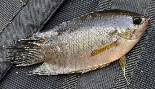 Belontia hasselti, TL 95mm, from Nek Cikam, Sanggau, West Kalimantan